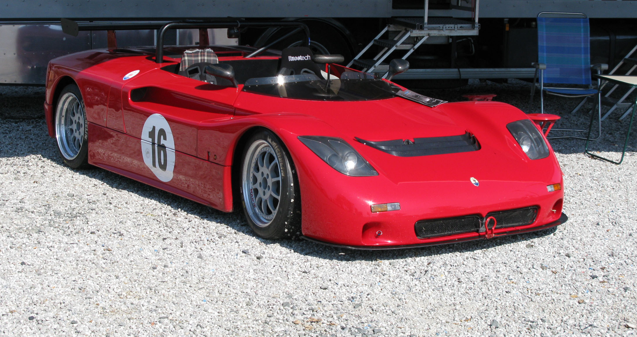 1991 Maserati Barchetta.Event: 2011 LM Story, Circuit Bugatti, Le Mans